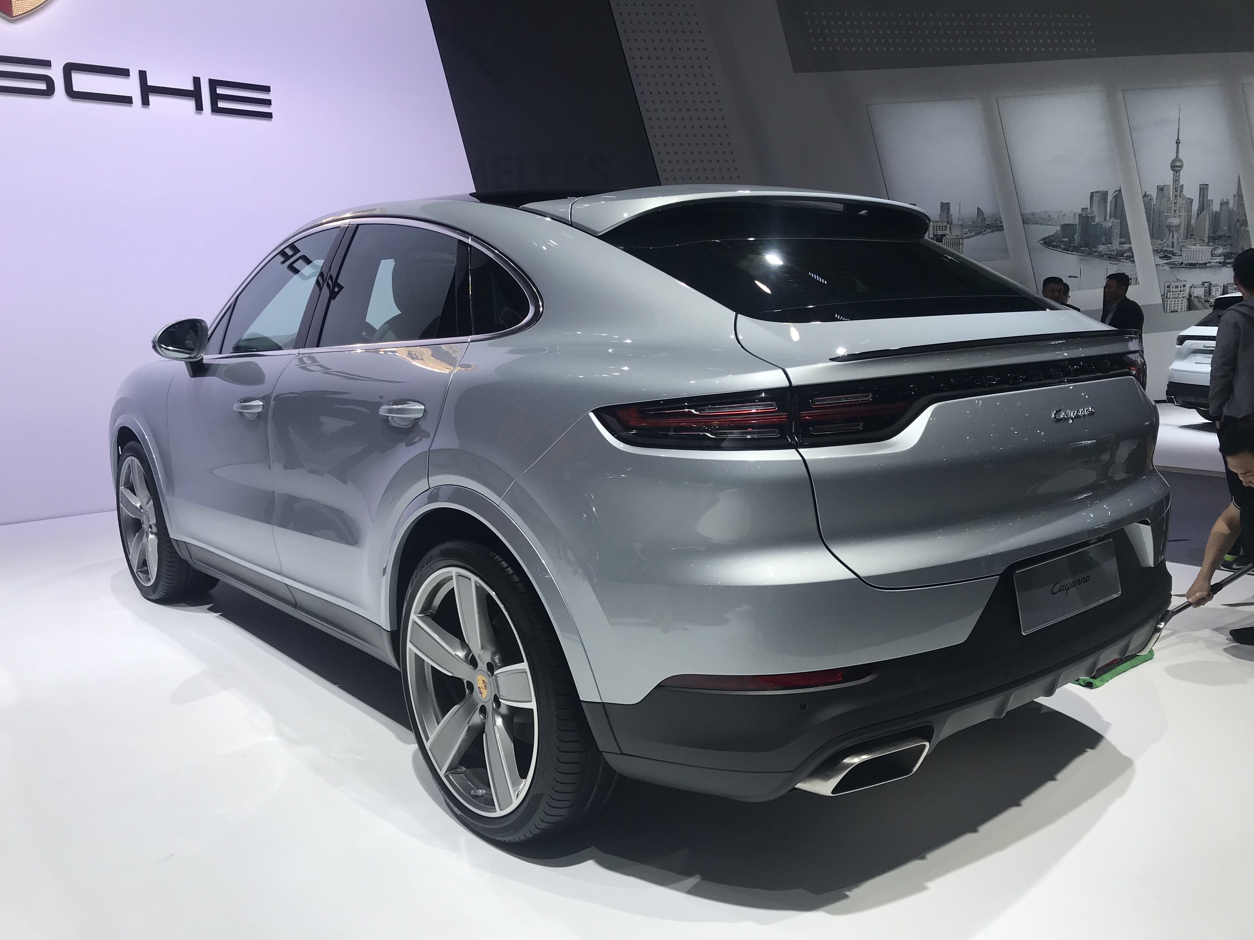 Porsche Cayenne Coupe